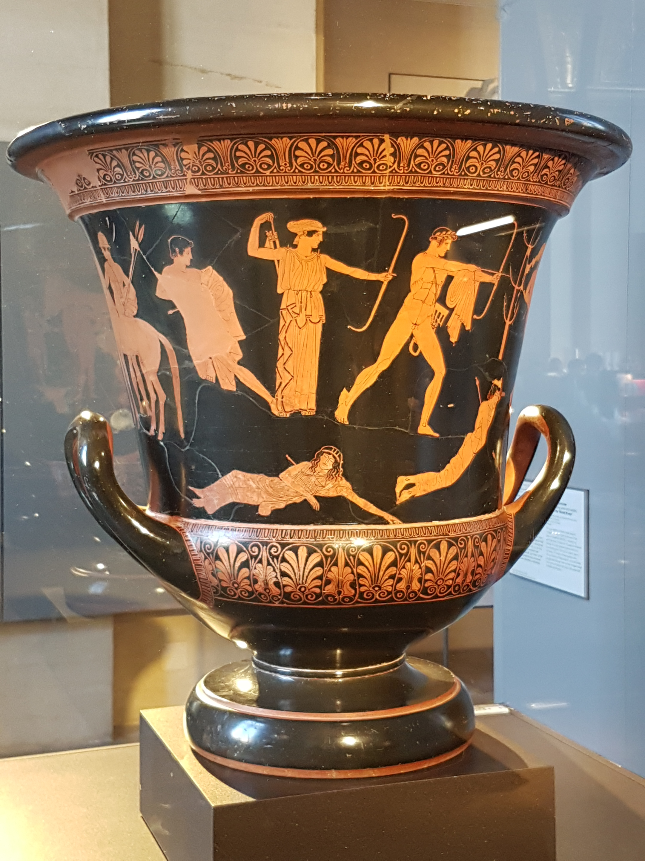 Niobid Krater. Face B (massacre of the Niobids).